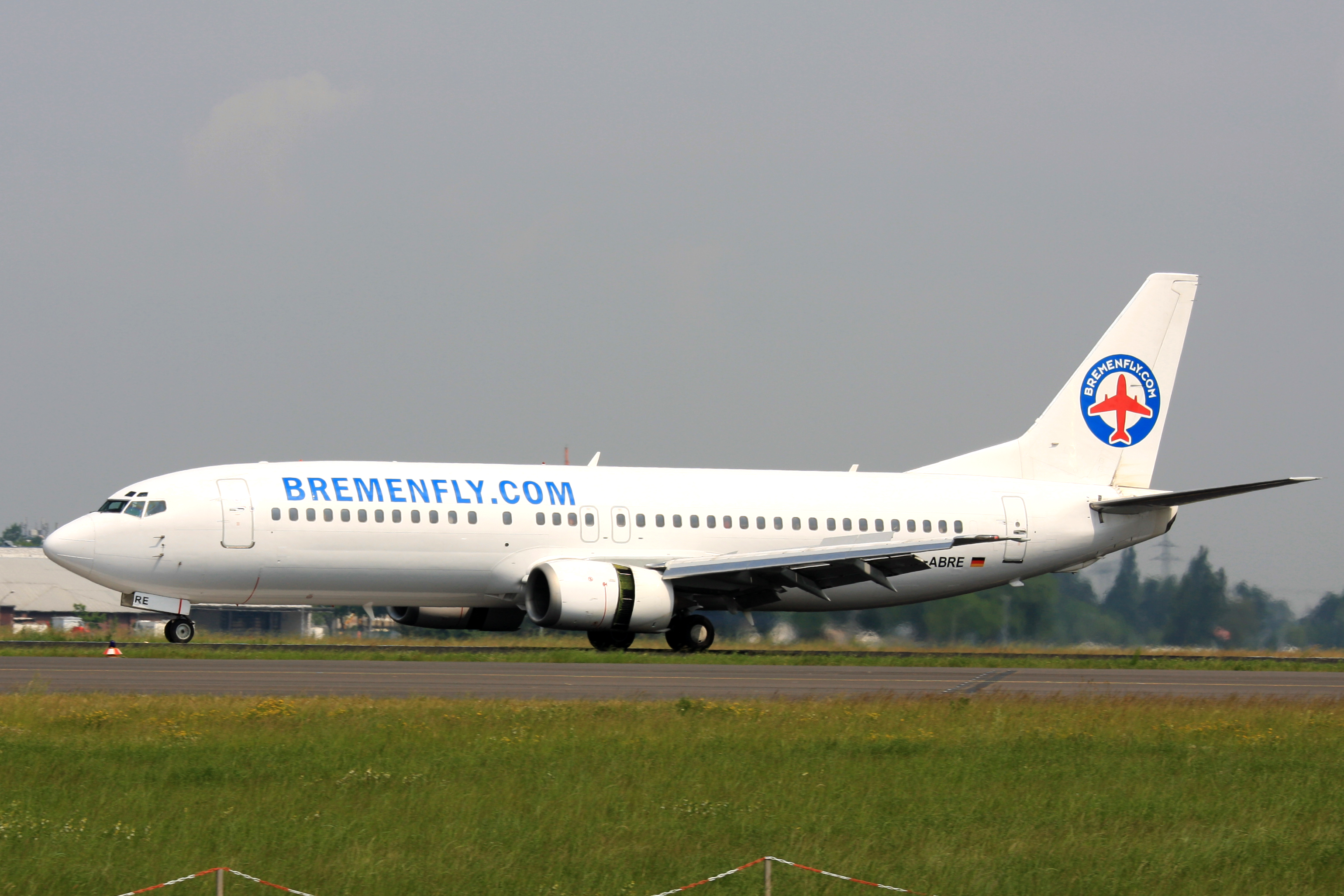 Boeing 737 of Bremenfly landing at Berlin Schönefeld Airport (picture taken during the International Air and Space Exhbition)